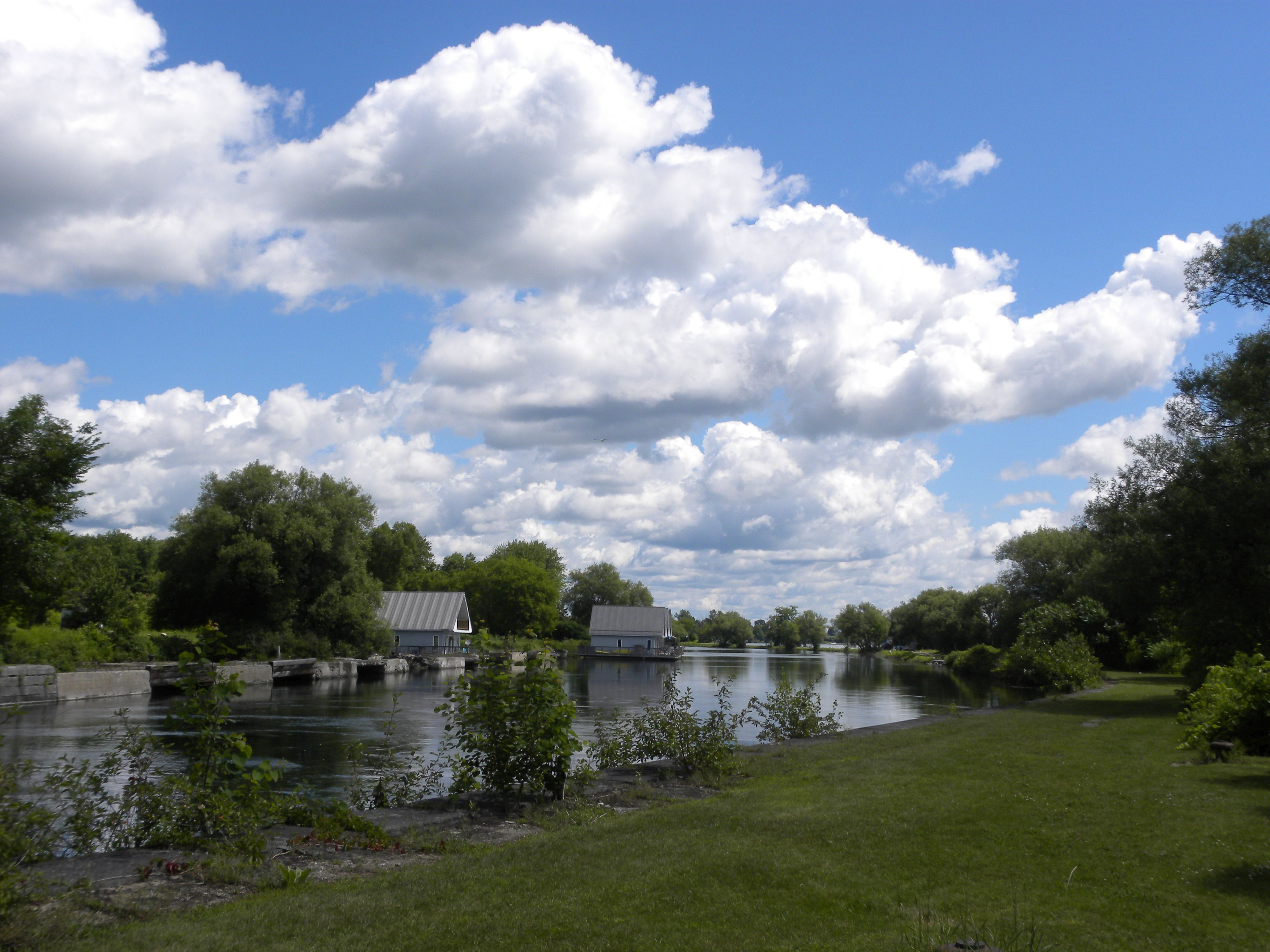 Galop Canal as it appeared in 2015, described in article to which this image will be attached